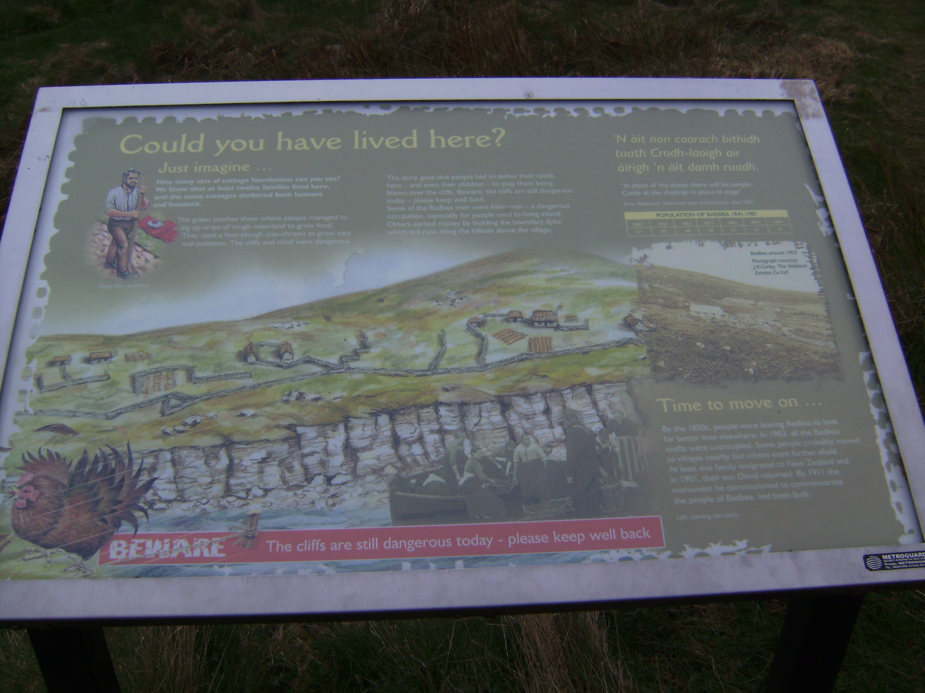 Signage at Badbea clearance village